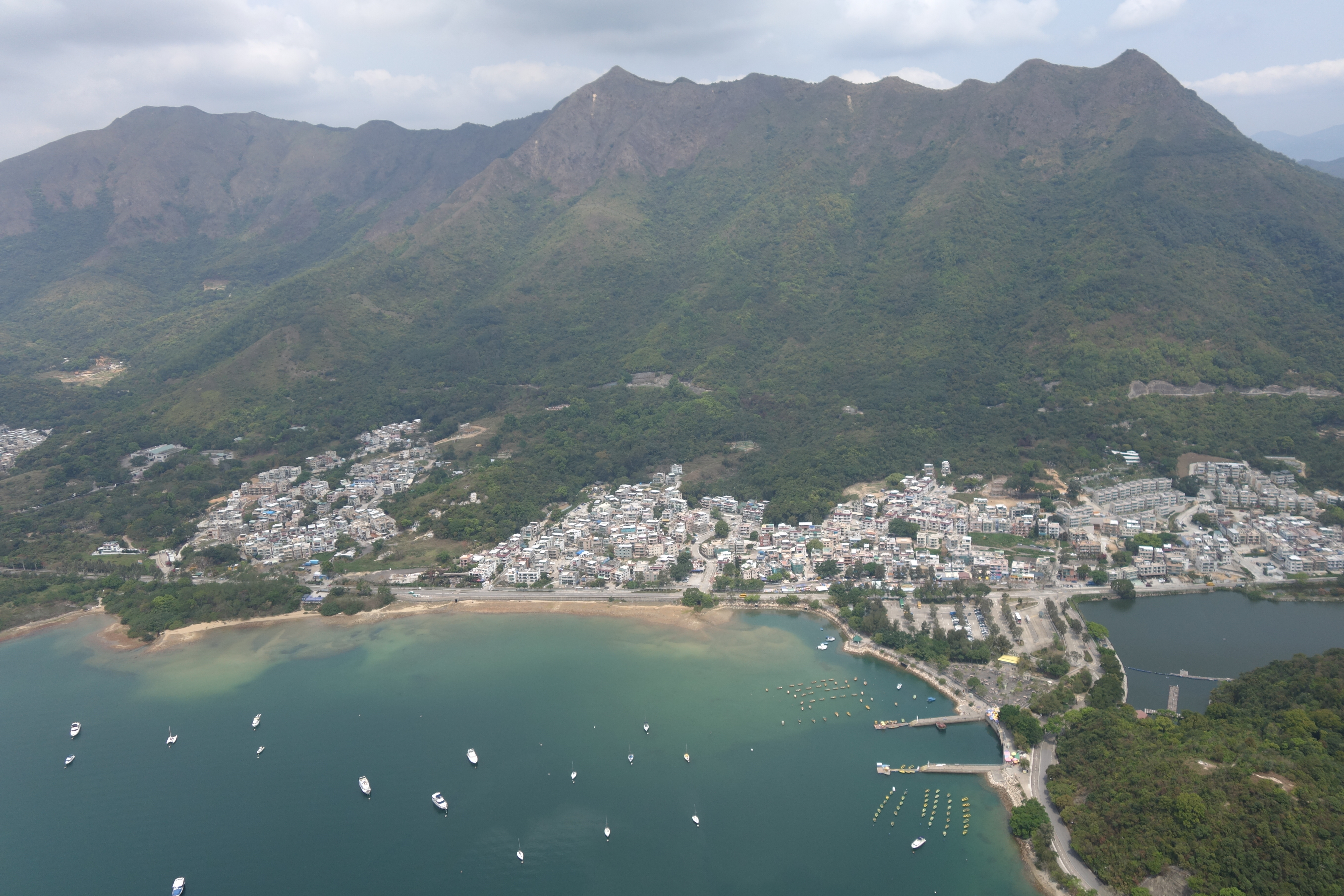 Pat Sin Leng serves as a beautiful backdrop for Tai Mei Tuk